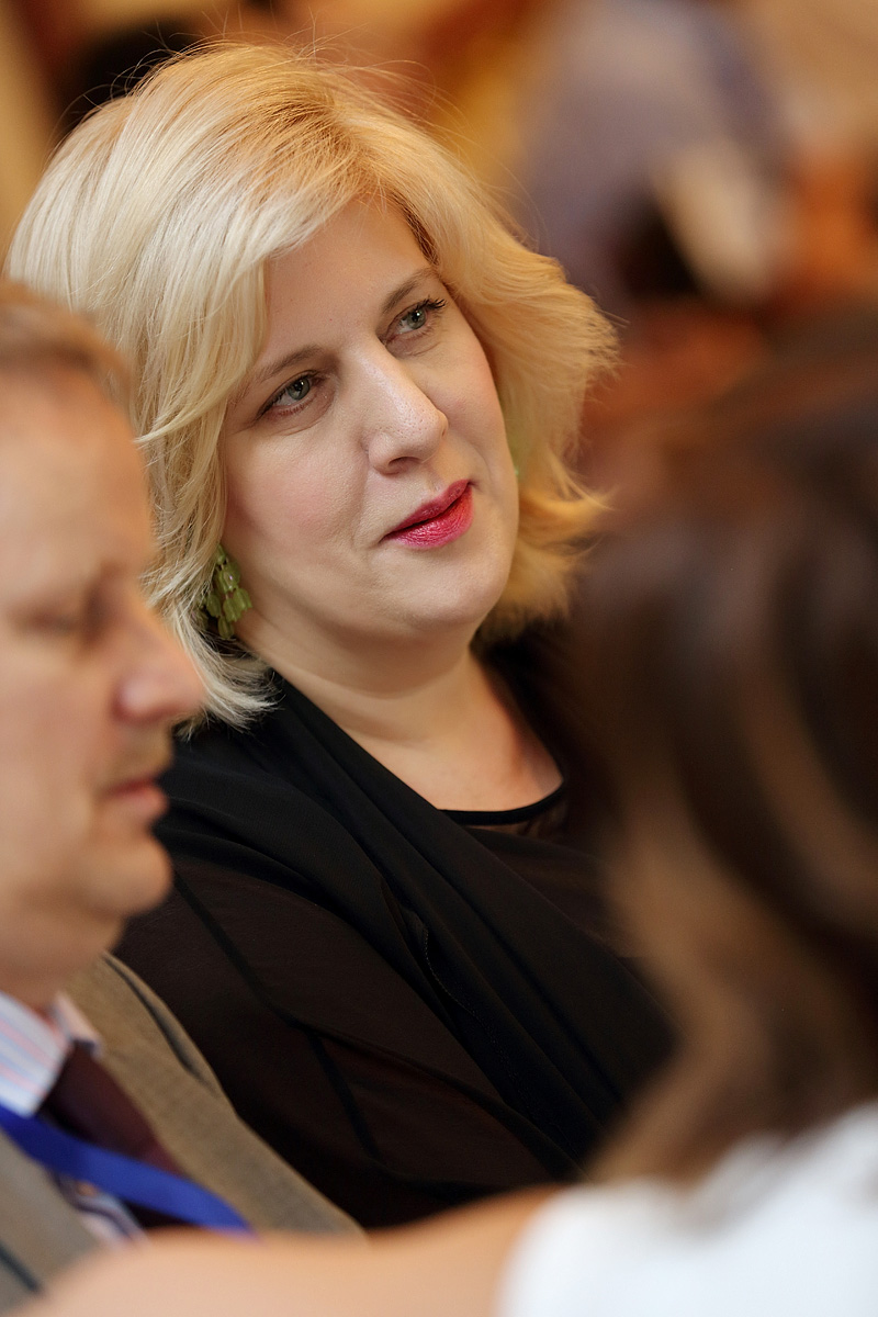 Dunja Mijatovic